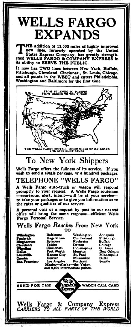 1914 newspaper ad for the Wells Fargo Express Co.